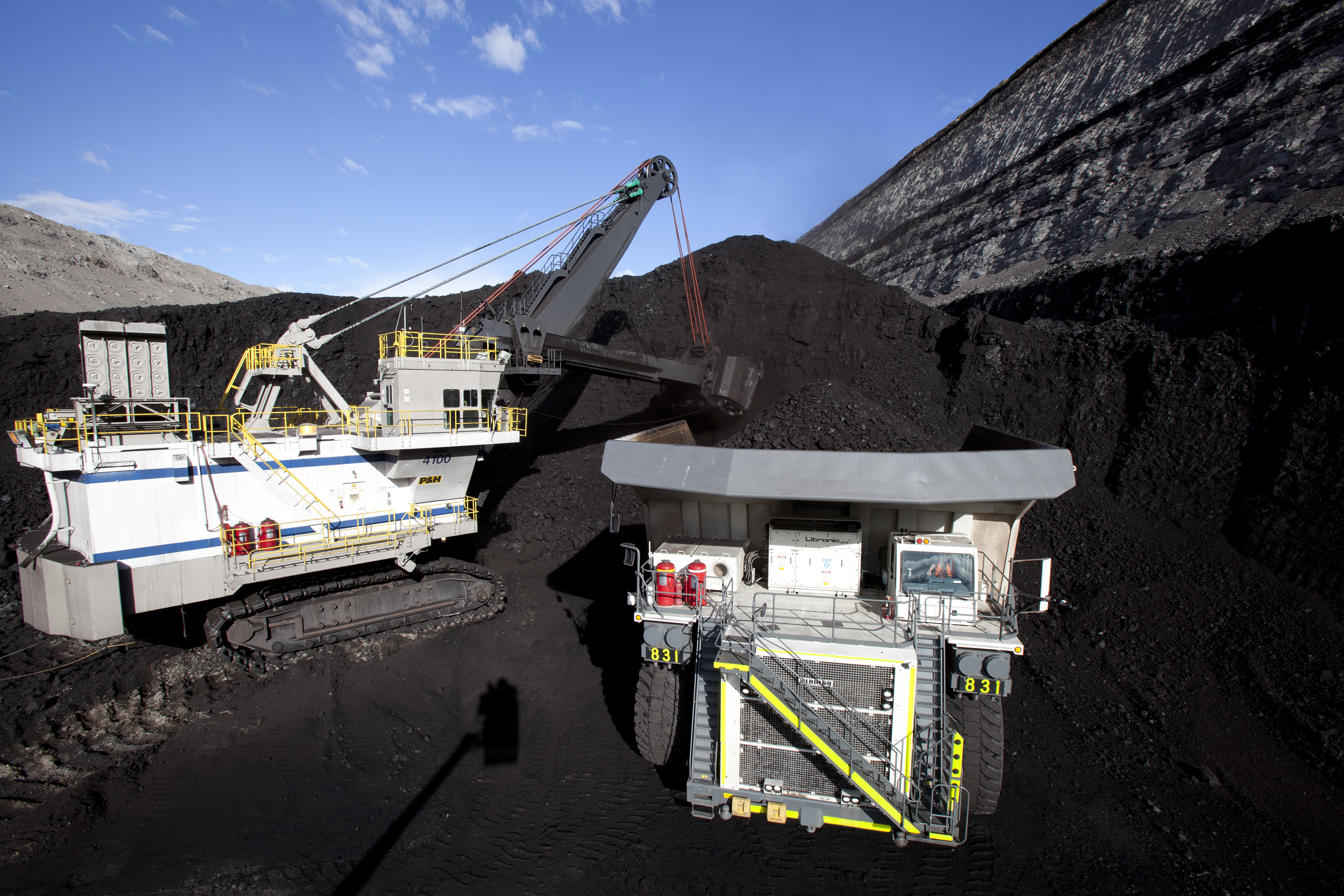 A P&H 4100 shovel loads coal into a Liebherr T 282C coal haul truck at the North Antelope Rochelle opencut coal mine.